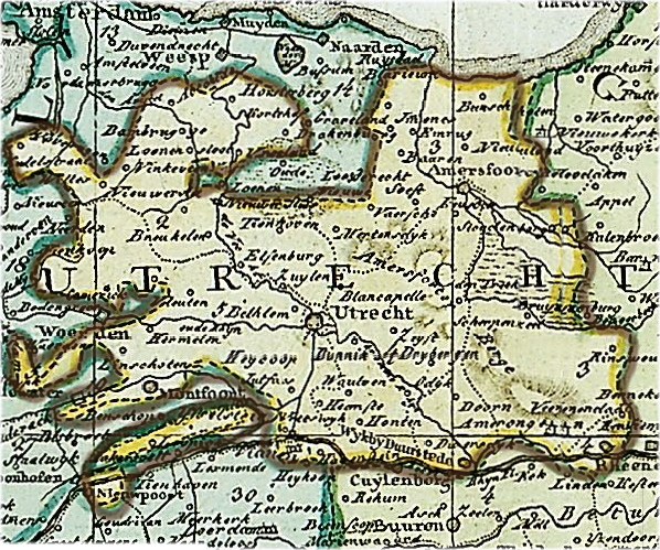 Batavian Republiek, departement Utrecht